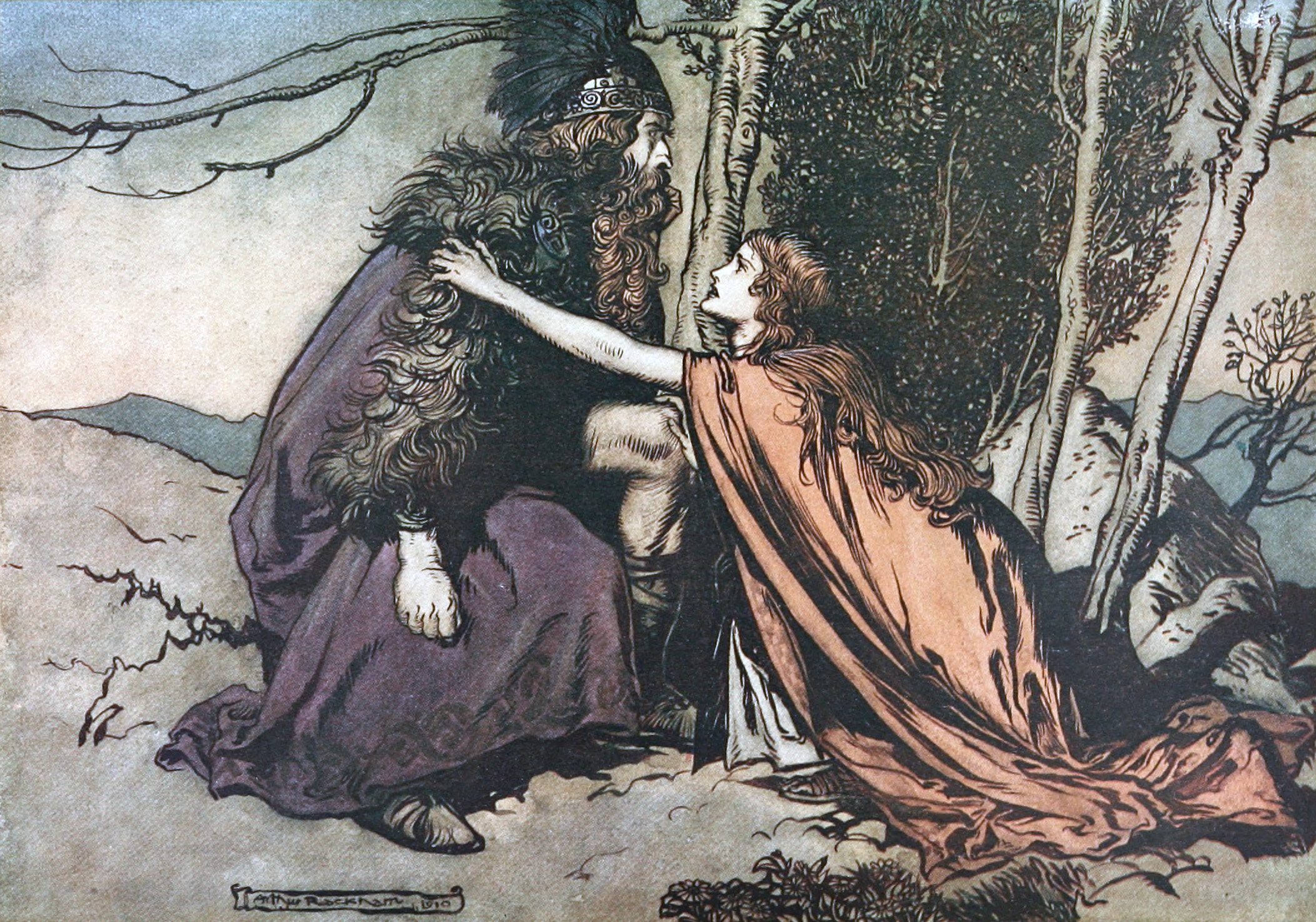 "Father! Father! / Tell me what ails thee? / With dismay thou art filling thy child!"